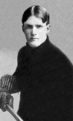 Canadian ice hockey player Jack Ward of the Canadian Soo club in the IPHL.